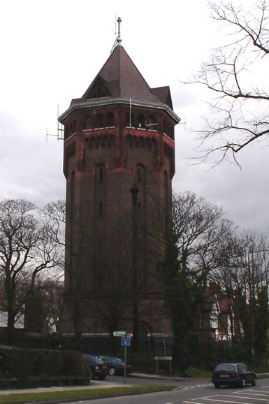 The watertower, Shooters Hill, London. I took this picture myself, and I'm releasing it into the public domain. It's not as if it's a very good picture anyway! Category:Images of buildings and structures Category:Images of London